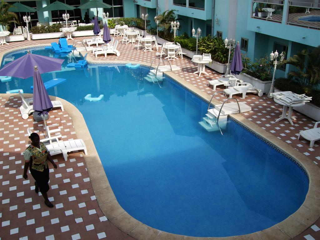 Makeni Wusum Hotel, Makeni.